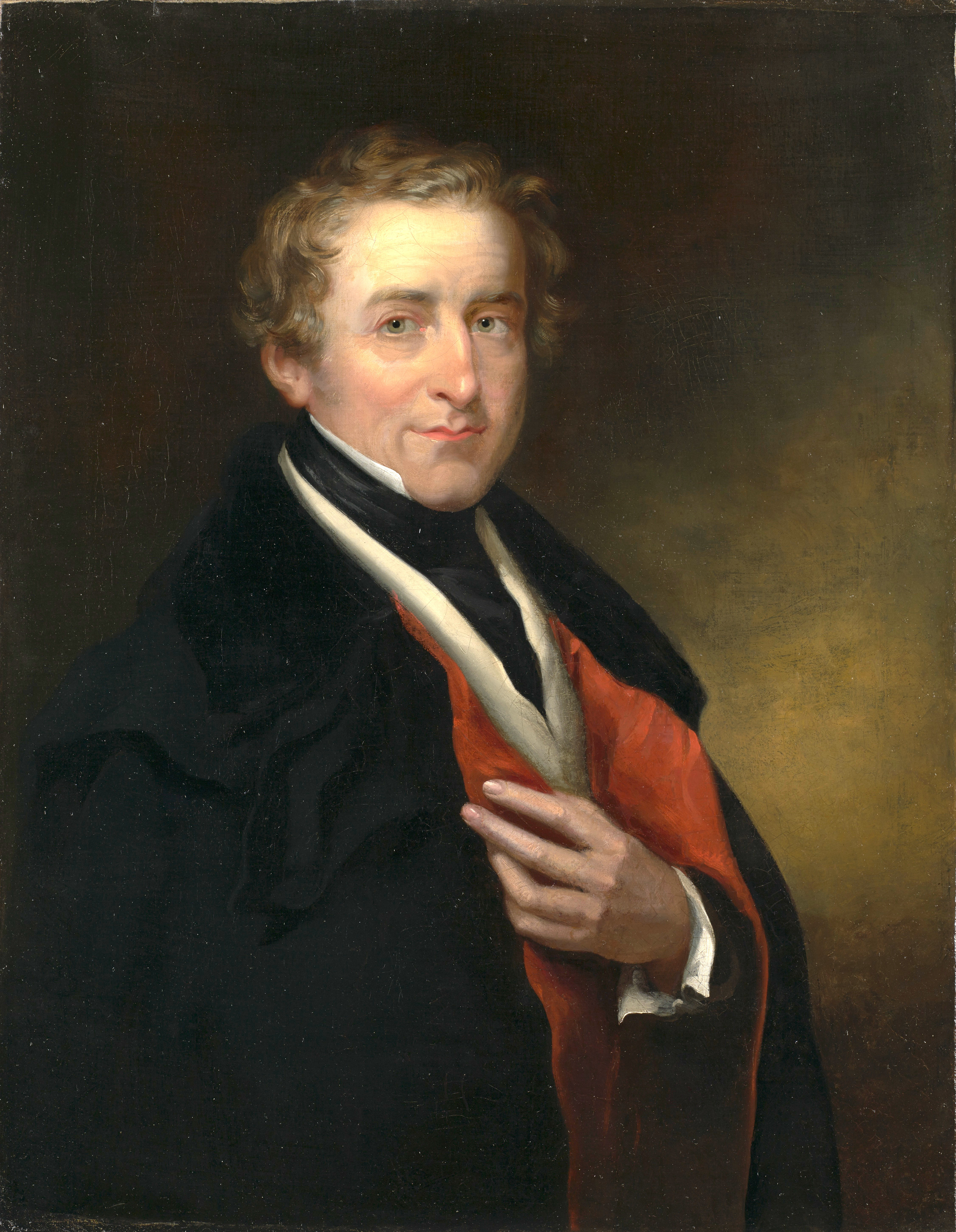 Portrait of Robert Peel (1788–1850)